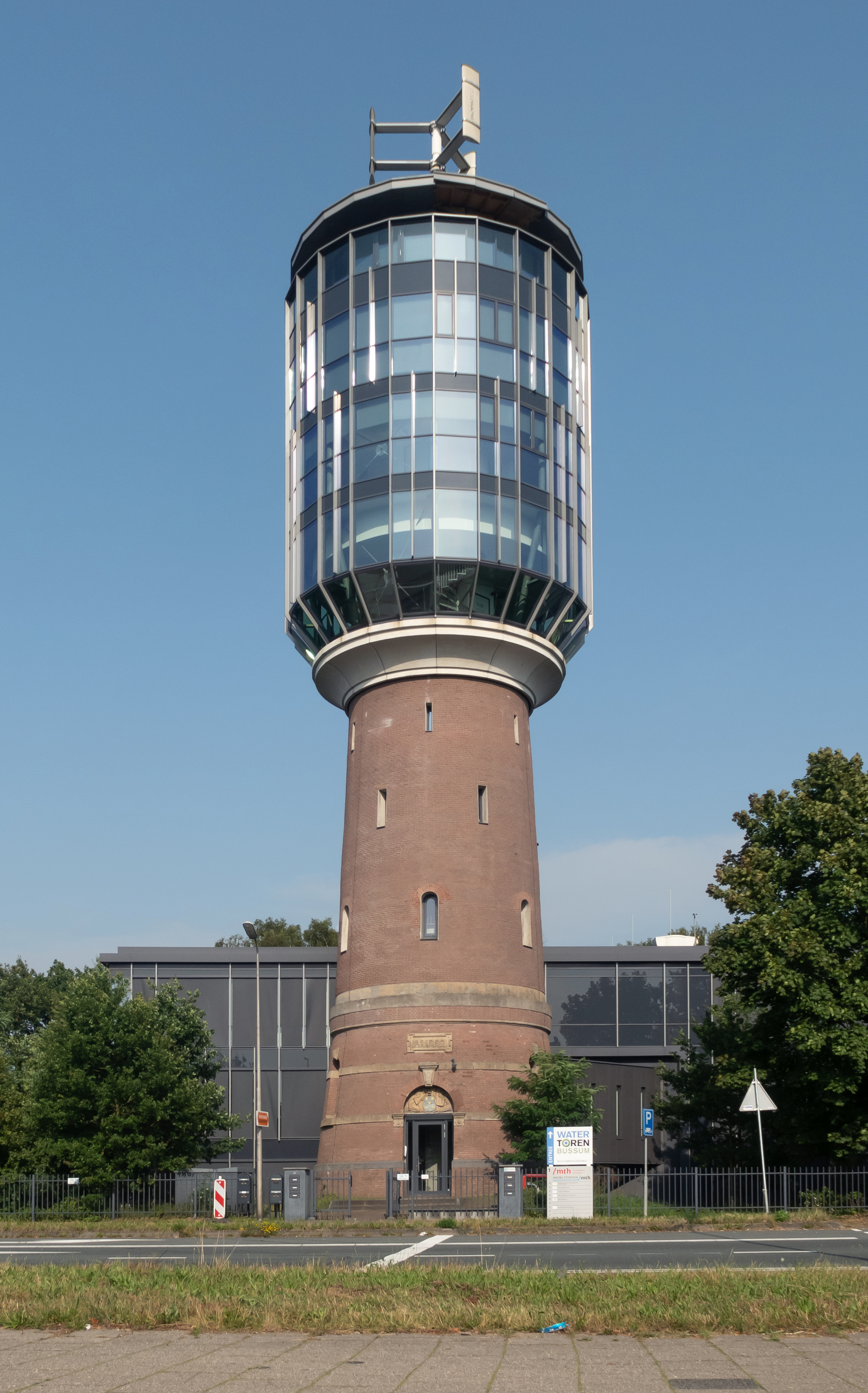 Bussum, water tower Bussum